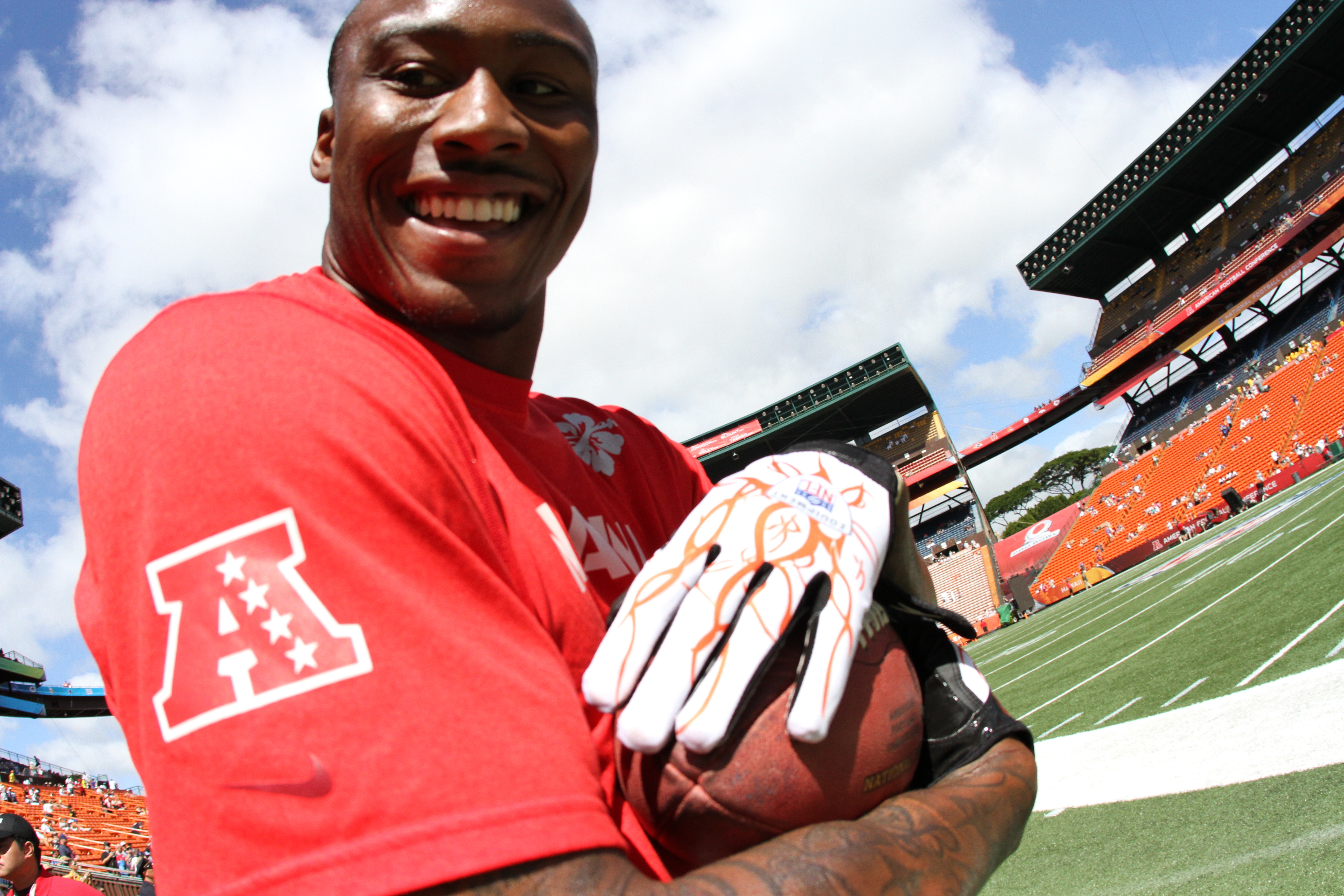 Miami Dolphins wide receiver Brandon Marshall smiles after making a reception during pregame warm up at the Aloha Stadium during National Football League's 2012 Pro Bowl game in Honolulu, Hawaii, Jan. 29, 2012.